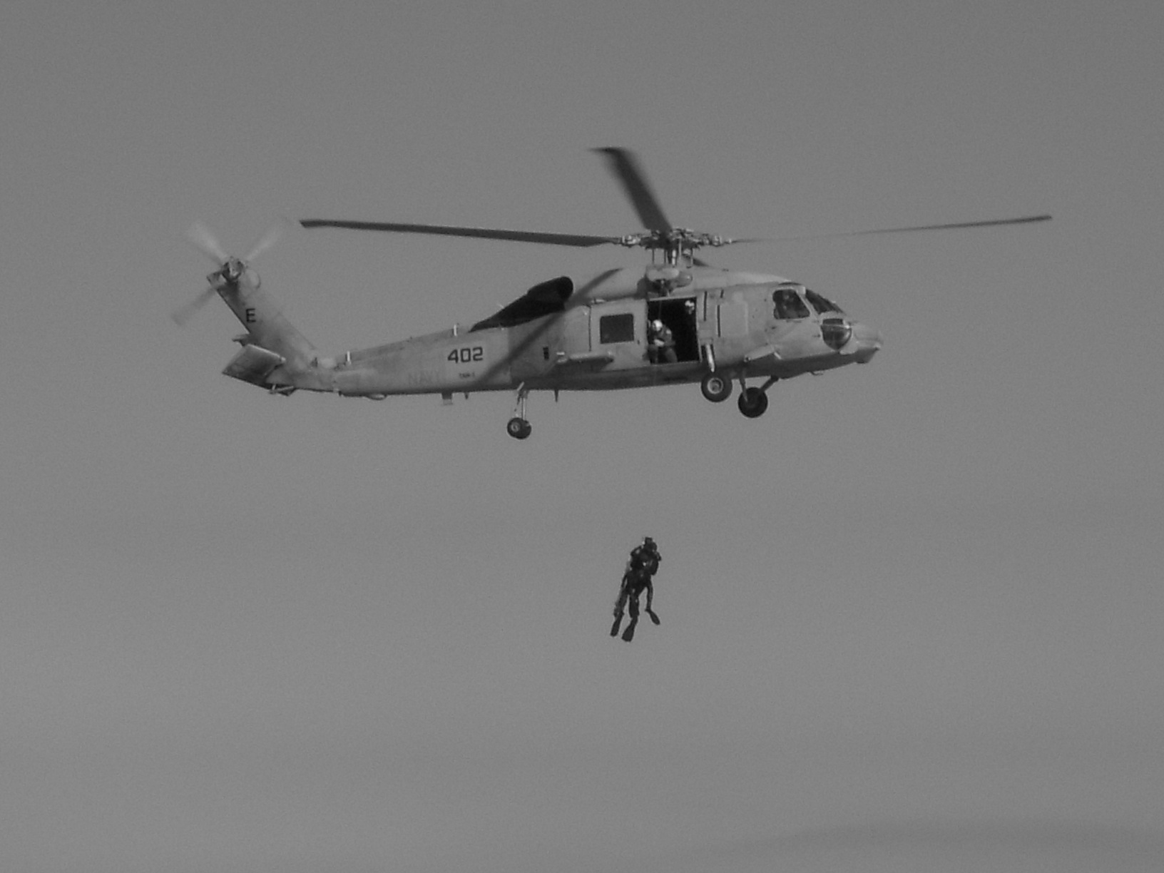 SAR swimmers being hoisted into an SH-60F Seahawk.